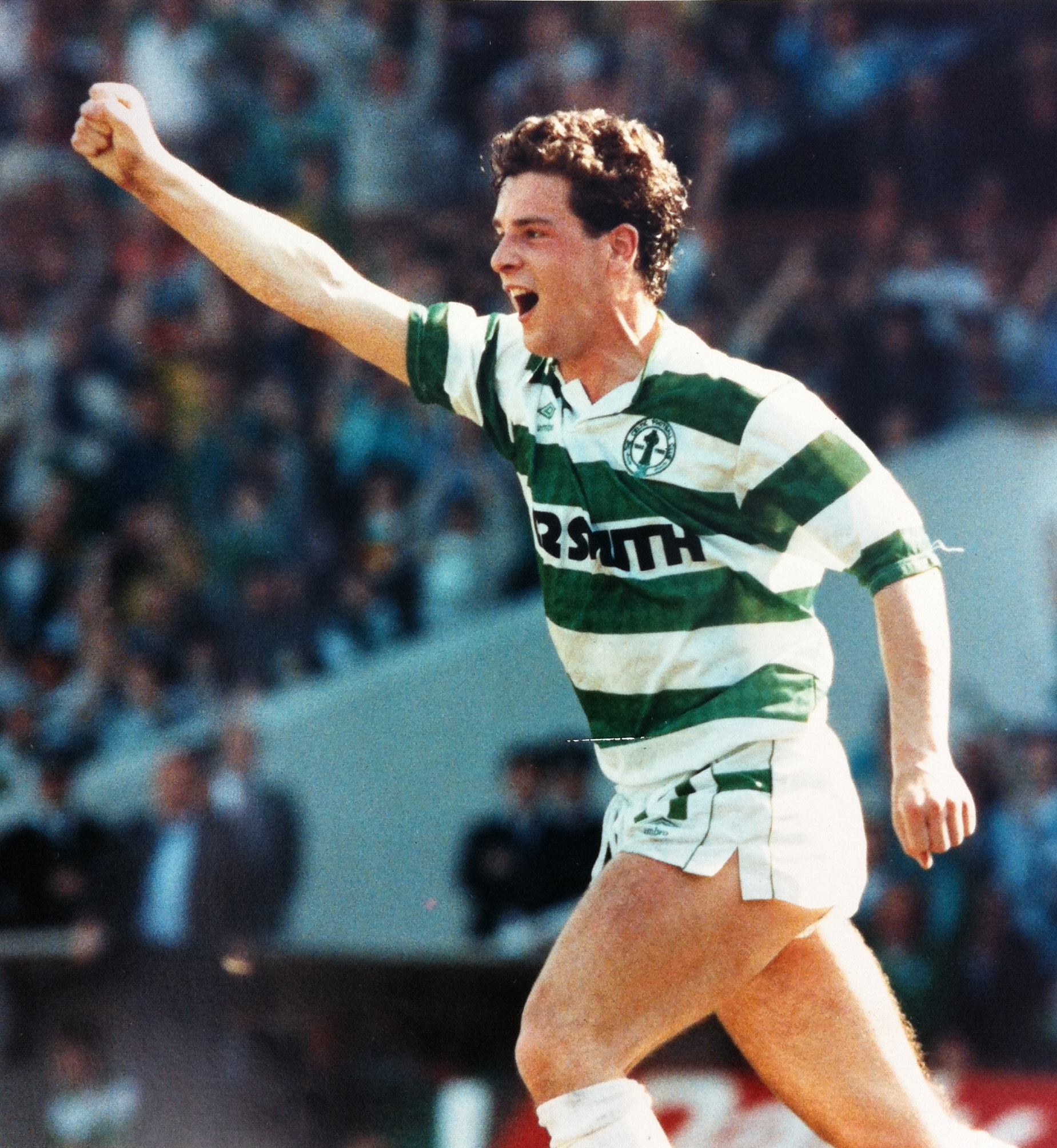 Elliot in his Celtic days